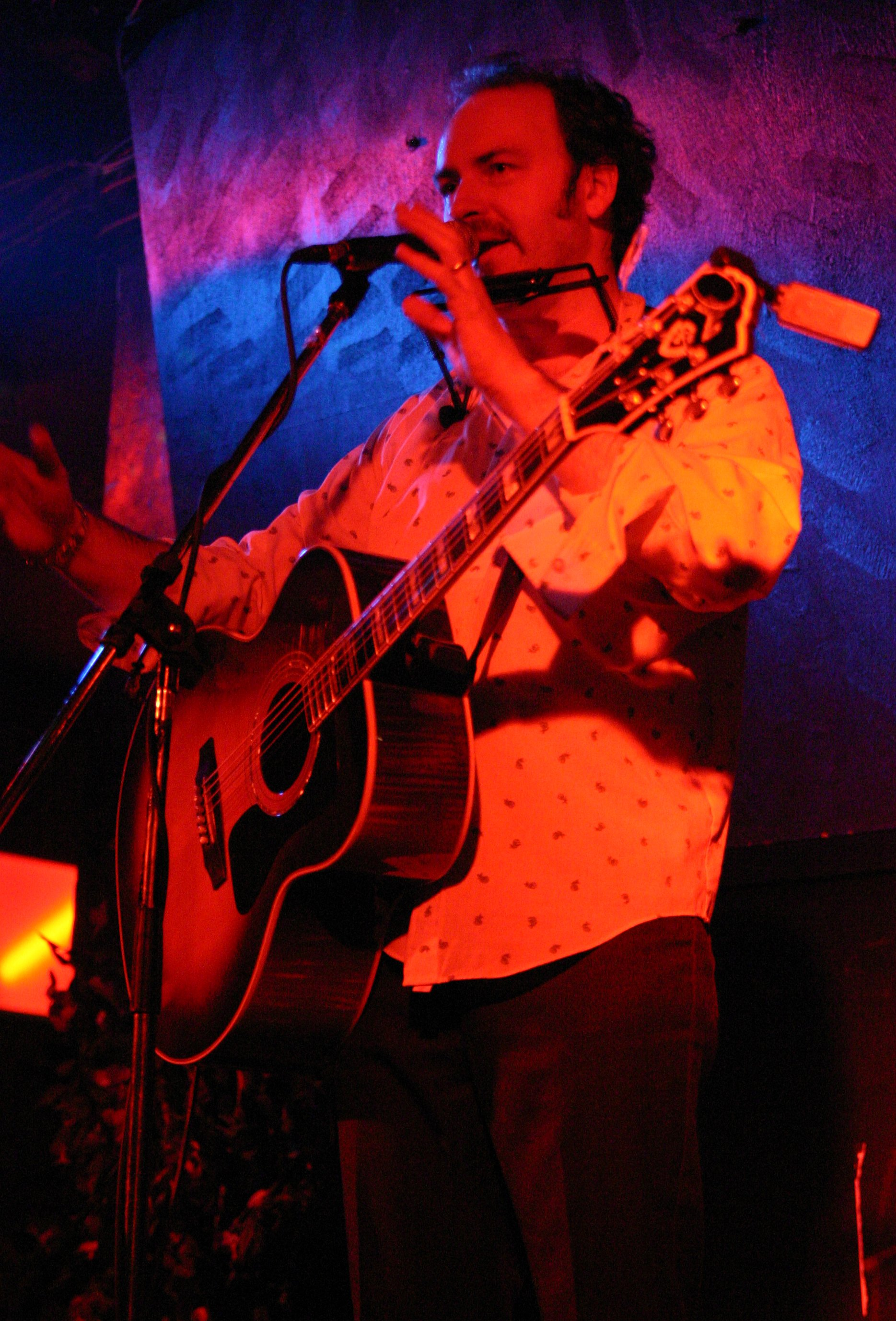 Michael Weston King, british singer-songwriter, formerly of the alternative-country-band The Good Sons